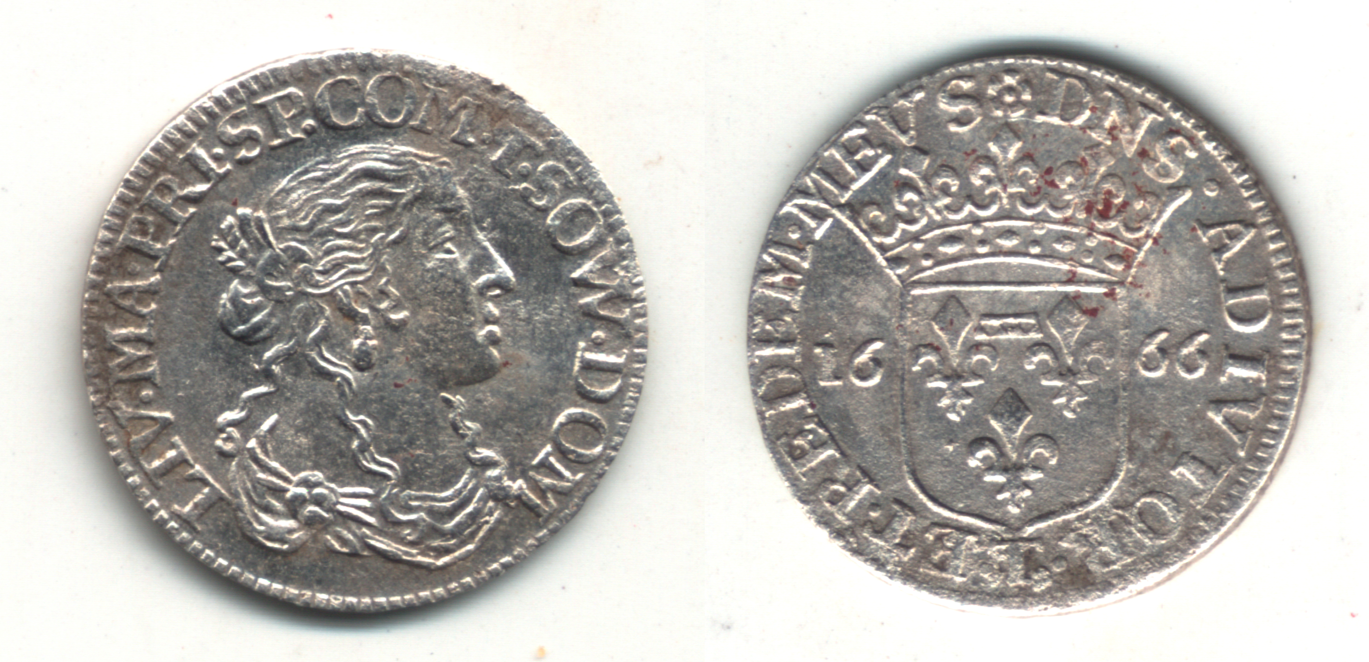 Italy, Tassarolo. Livia Centurioni Oltremarini 1658-1667 AR Luigino (21mm, 2.02 g). Tassarolo mint, dated 1666. LIV MA PRI SP COMT SOW DOM Head right DNS ADIVTOR ET REDEM MEVS imitation of France coat of arms. Cammarano 368